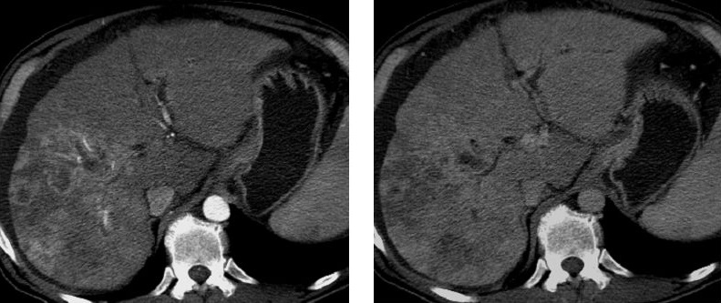 Arterial and portal venous phase CT of cirrhosis and hepatocellular carcinoma. For context, see Computed tomography of the abdomen and pelvis.